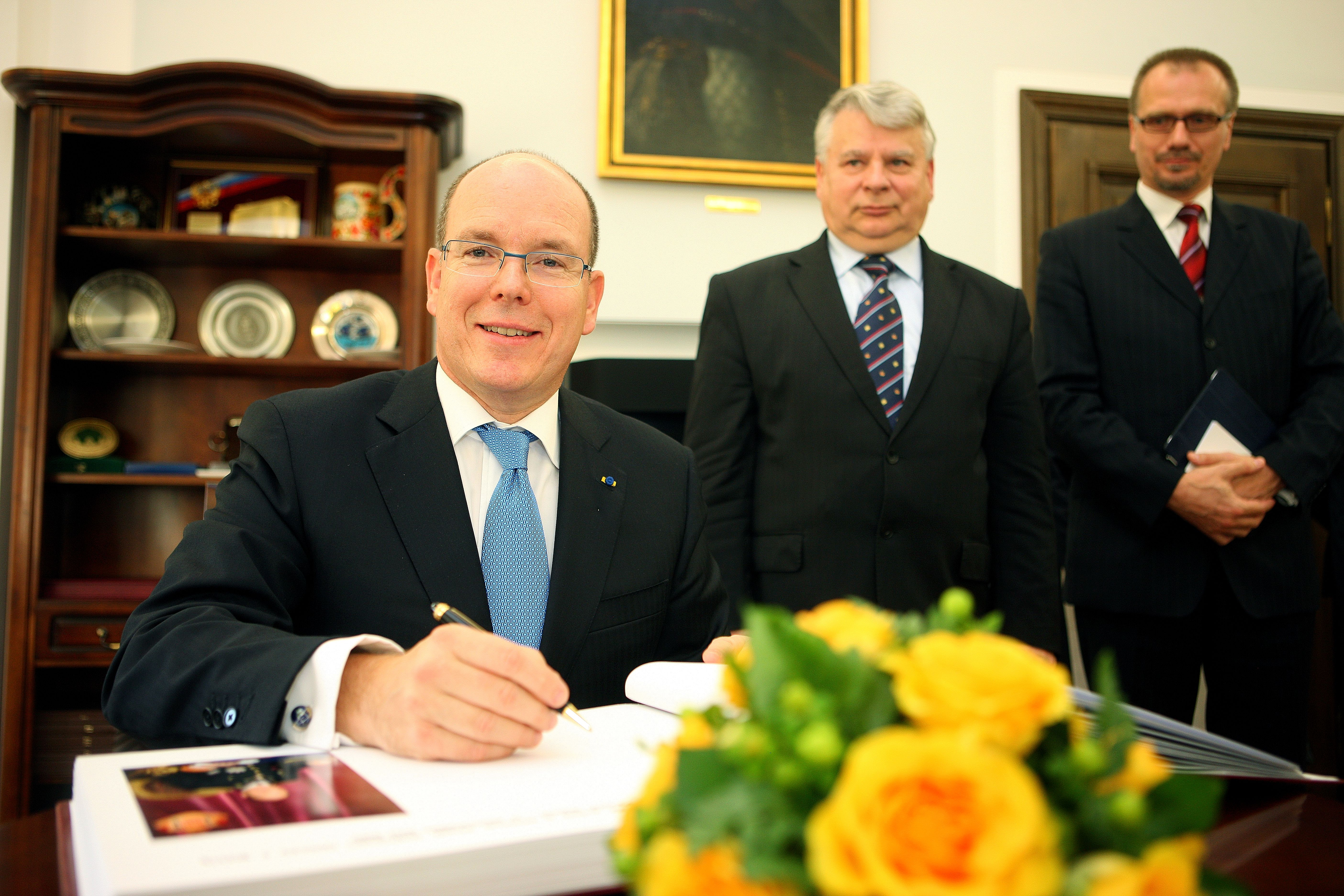 Albert II, Prince of Monaco, in the Polish Senate